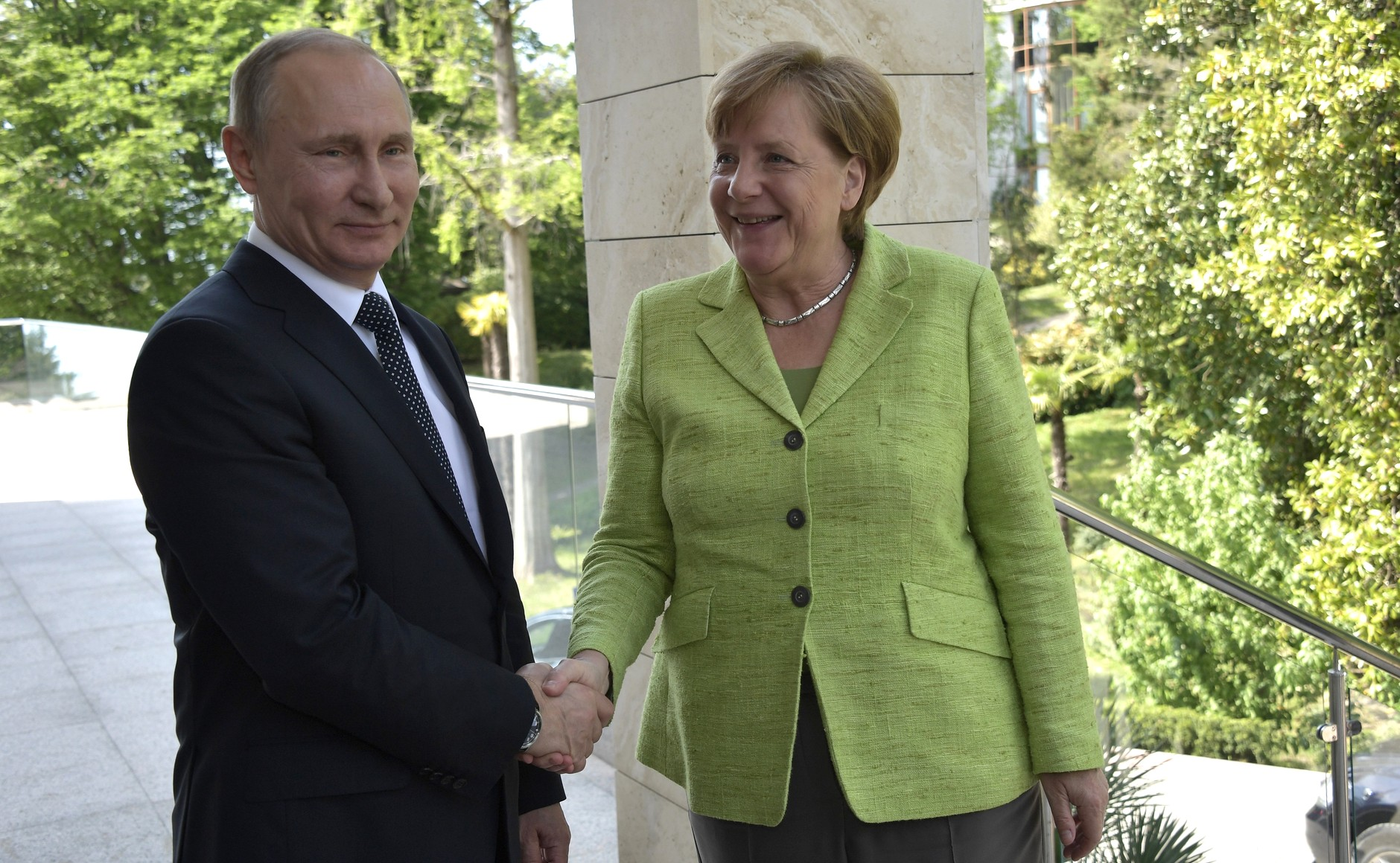 Vladimir Putin received Federal Chancellor of the Federal Republic of Germany Angela Merkel at his Sochi residence